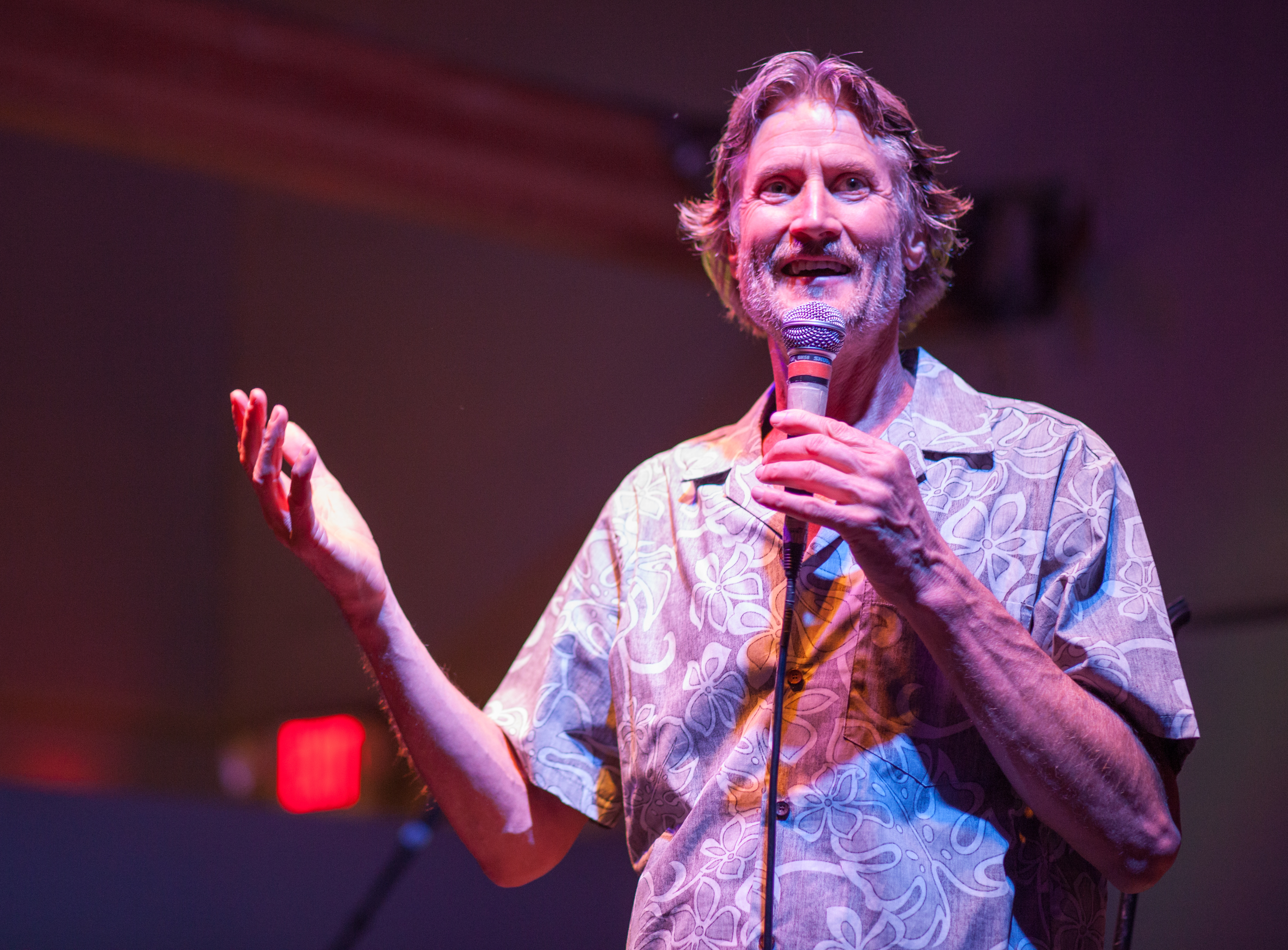 Will Tuttle speaks at The Art of Survival, a vegan festival in San Francisco.